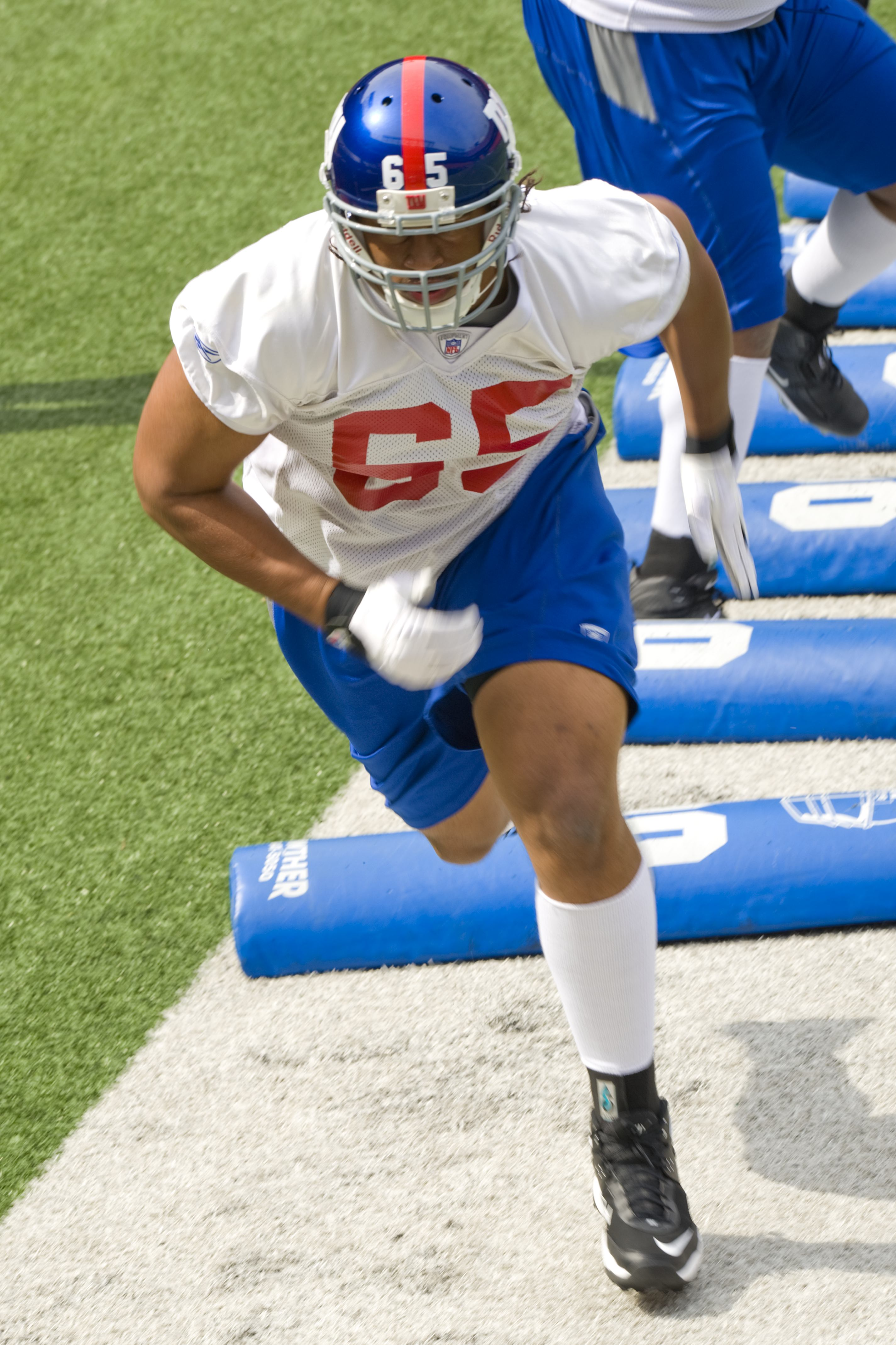 will beatty wiki